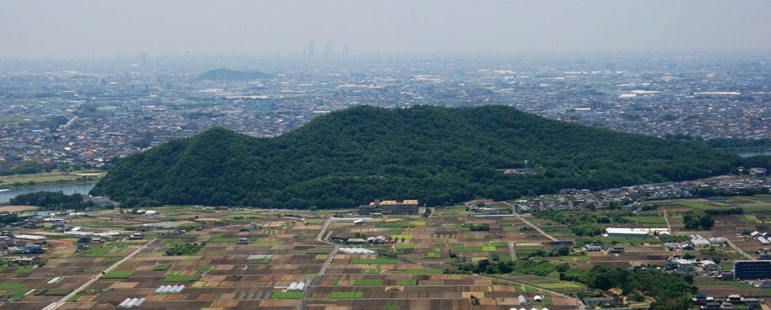 Mount Igi seen from Mount Yagi in Kakamigahara, Gifu Prefecture, Japan.